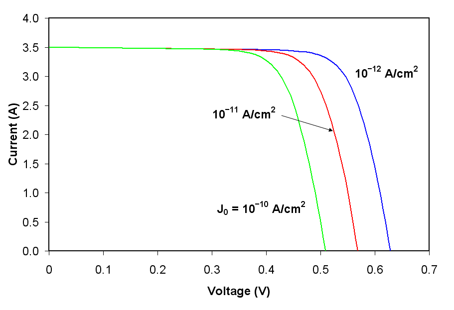 Solar cell I-V curve as a function of reverse saturation current density.